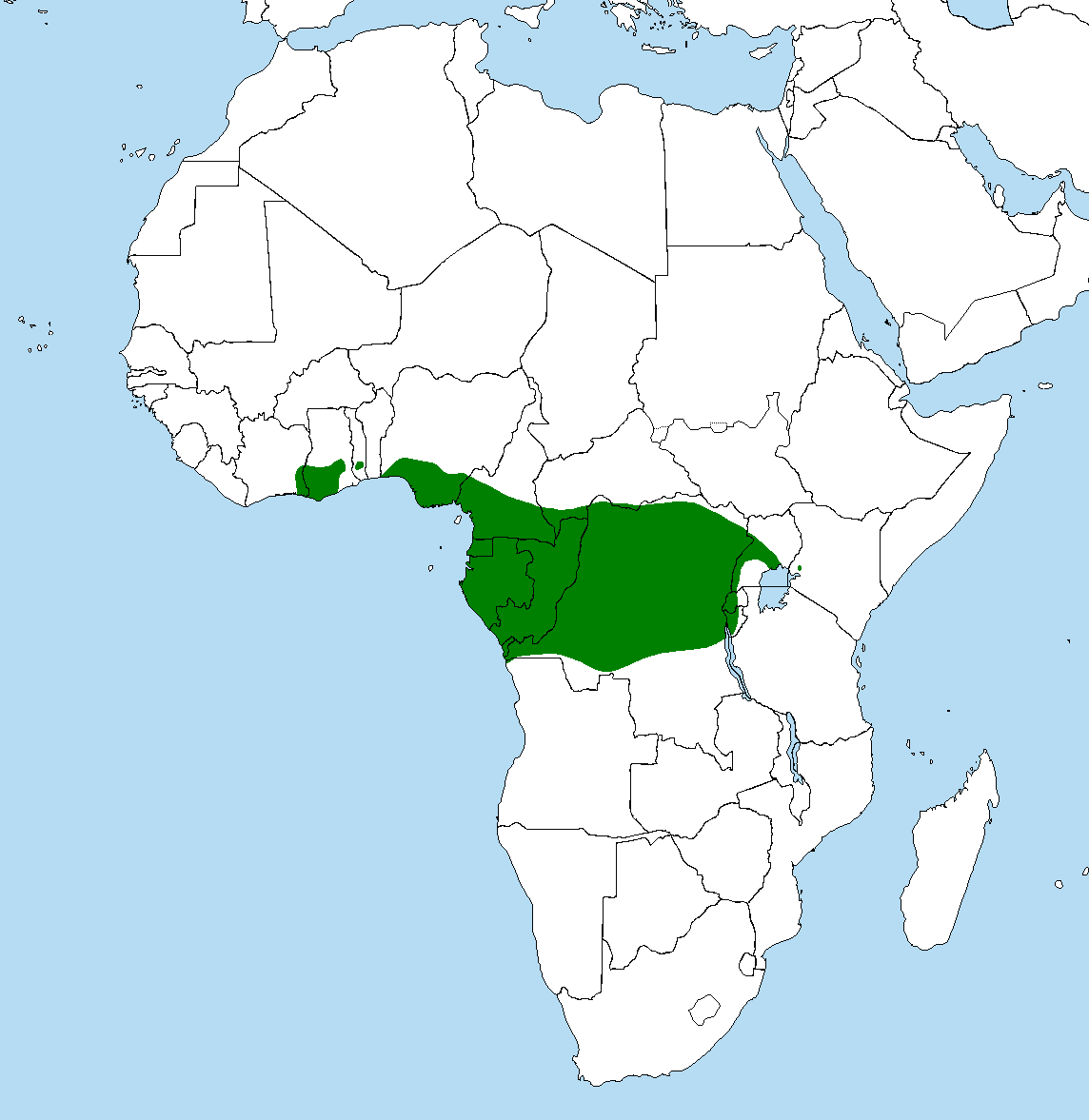 Distribution map of Psittacus erithacus. Compiled from data at IUCN.